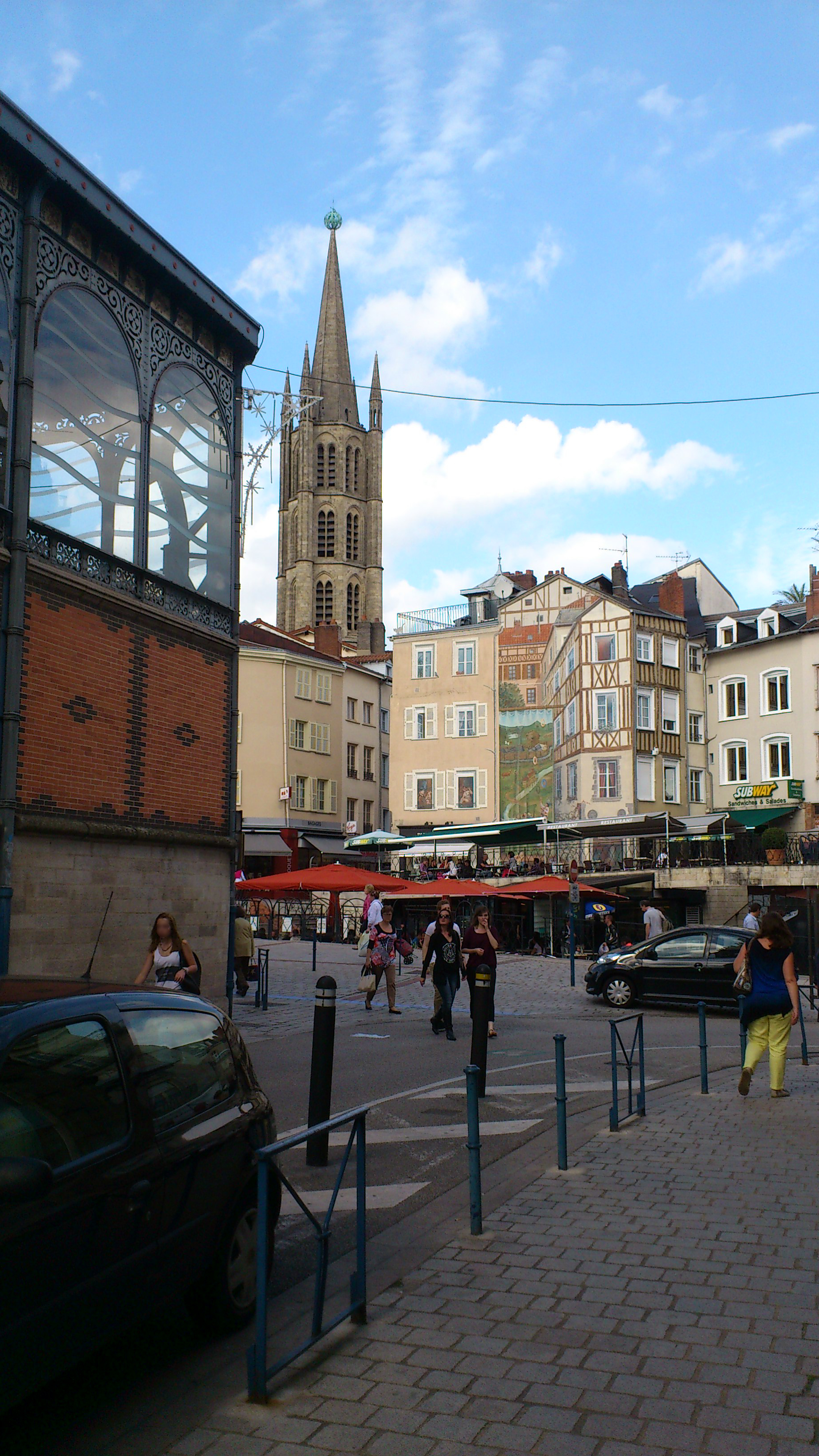 Limoges: Central market and Saint-Michel-des-Lions church